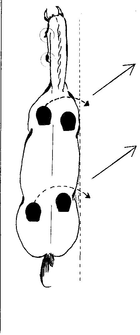 Leg-yield: A lateral movement without bend of the spine and without collection. Slight flexion of the pole away from the direction of travelling so one can see the left eye and nostril. The inner legs (here the left ones) are crossing in front of the outer legs. Can be performed on a diagonal into the arena like in this picture or along the rail at an angle of 30 to 45 degrees.